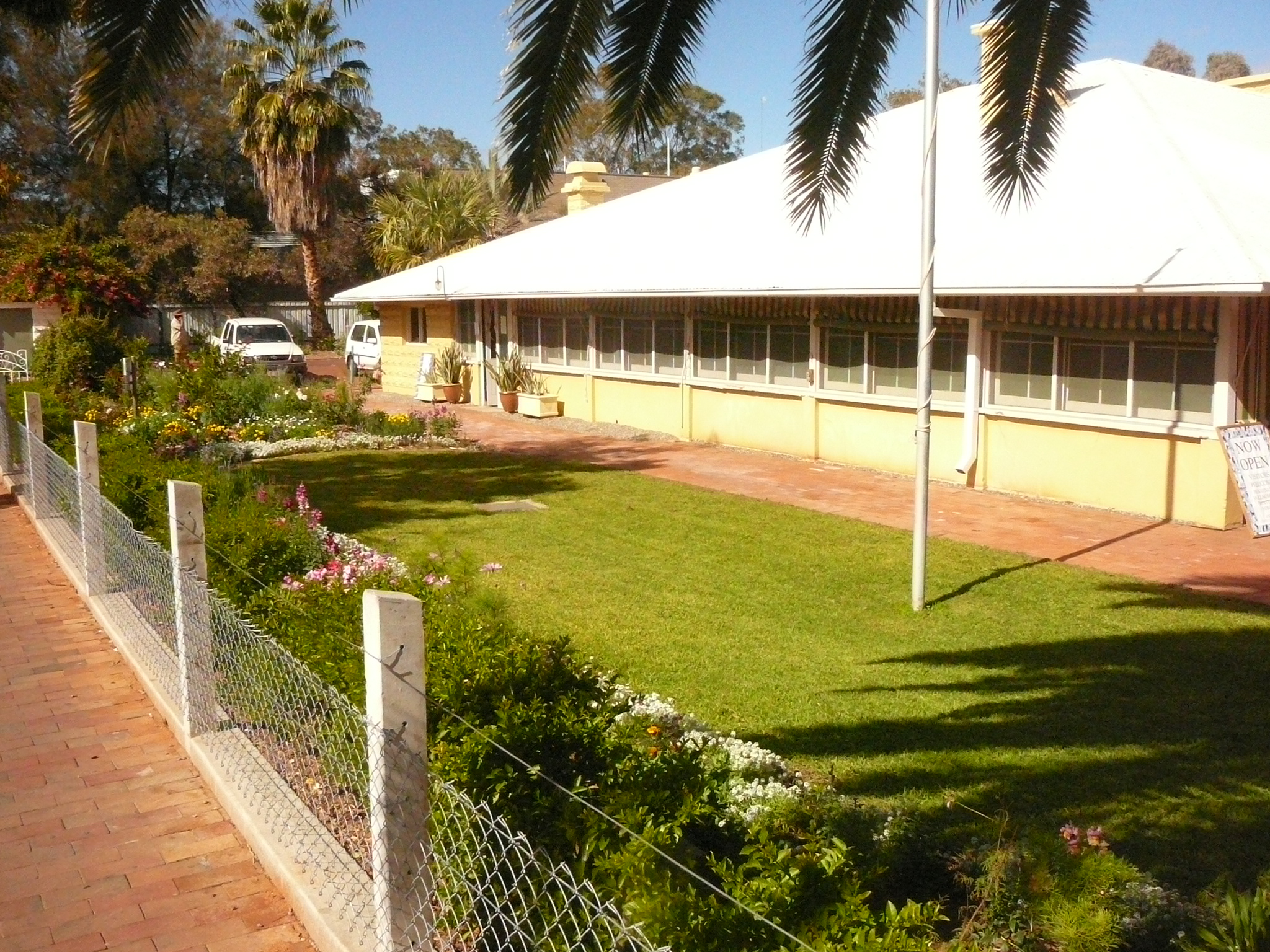 This is a view taken from the corner of Hartley and Parsons Streets.